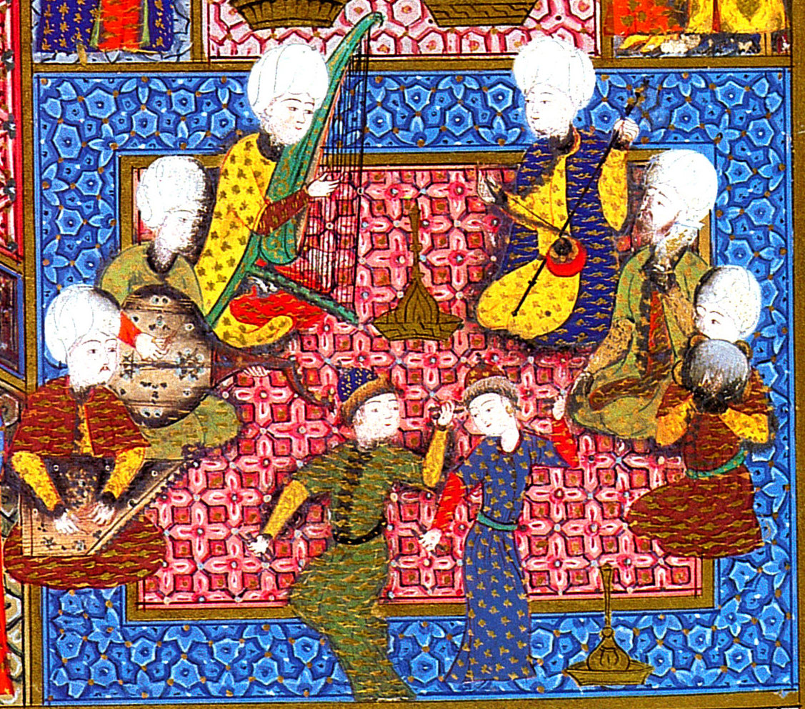 Dancers (köçeks) and Musicians Performing at the circumcision ceremony of Selim, Bayezid, and Mehmed in 1530. The miniature is from the book called Süleymanname. The köçeks in this drawing accompany the music with çalpara’s (wooden castanets) in their hands.